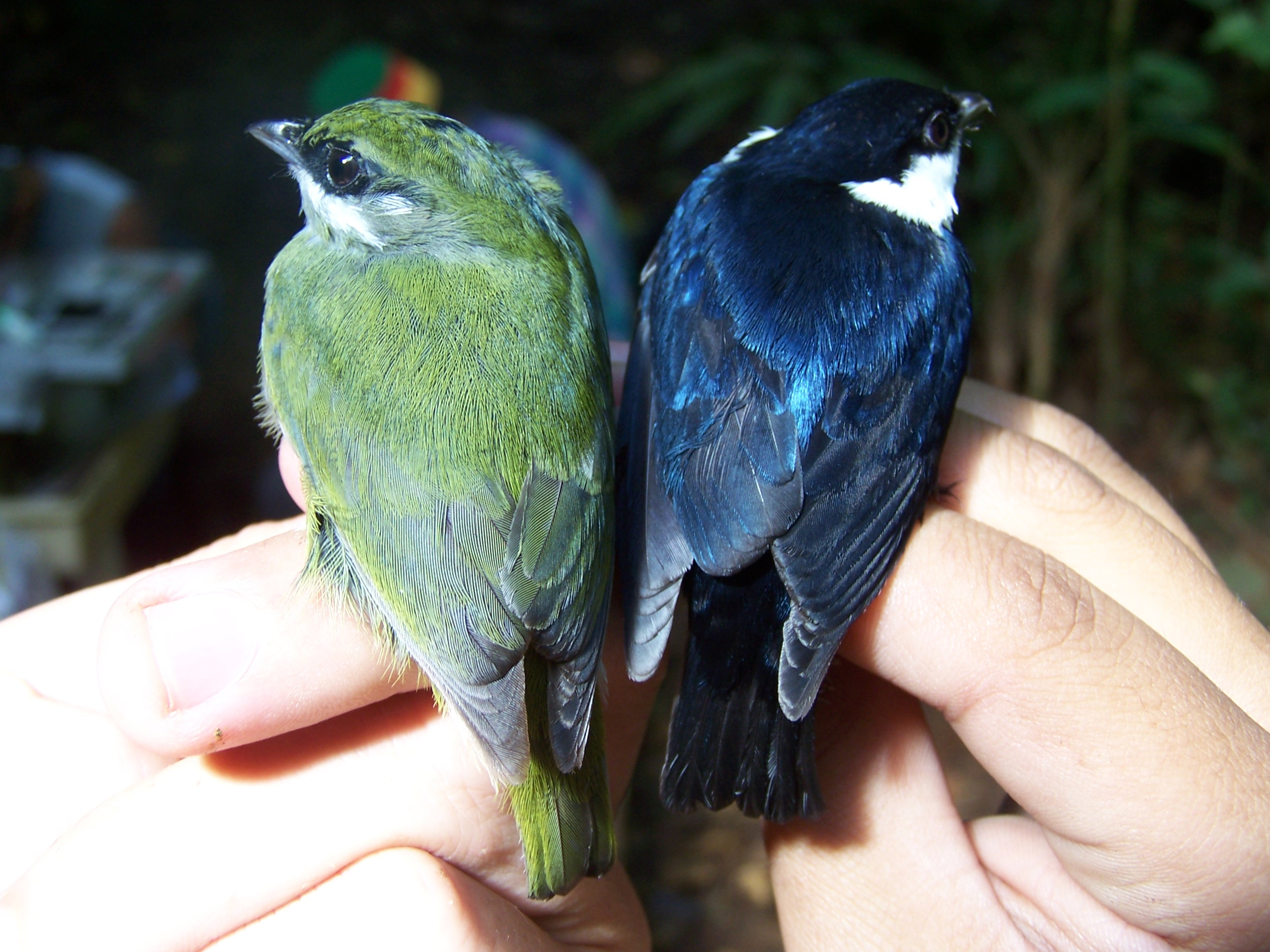 Third Year Male (Left) and After Third Year Male (right). Photo taken by Chase Mendenhall, Las Cruces, Costa Rica, March 2006. Aging and sexing criteria from Chase Mendenhall.